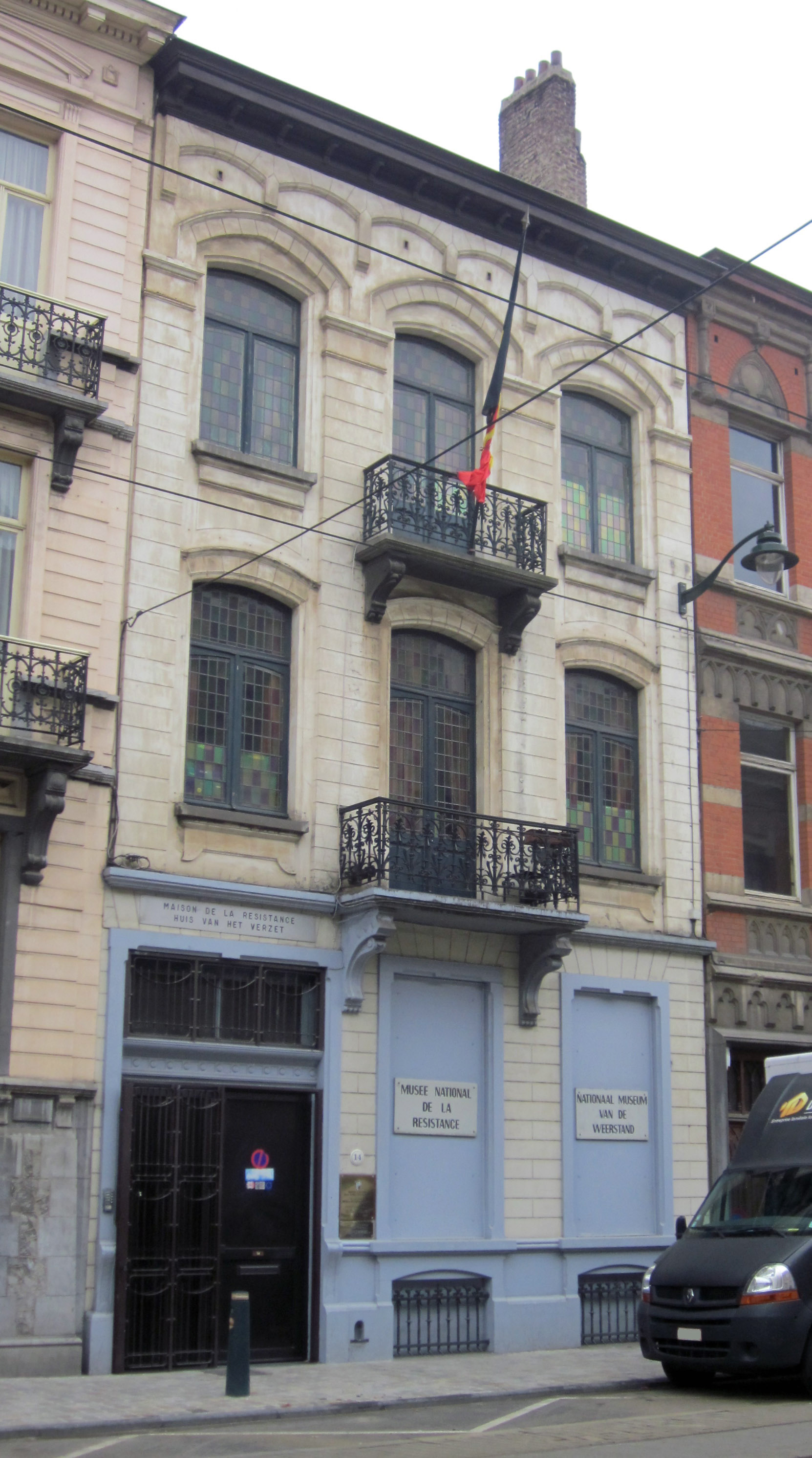 Outside of the National Resistance Museum in Anderlecht, Belgium. The building was used by the photographer of the Faux Soir, published in 1943 by the Front de l'Indépendance